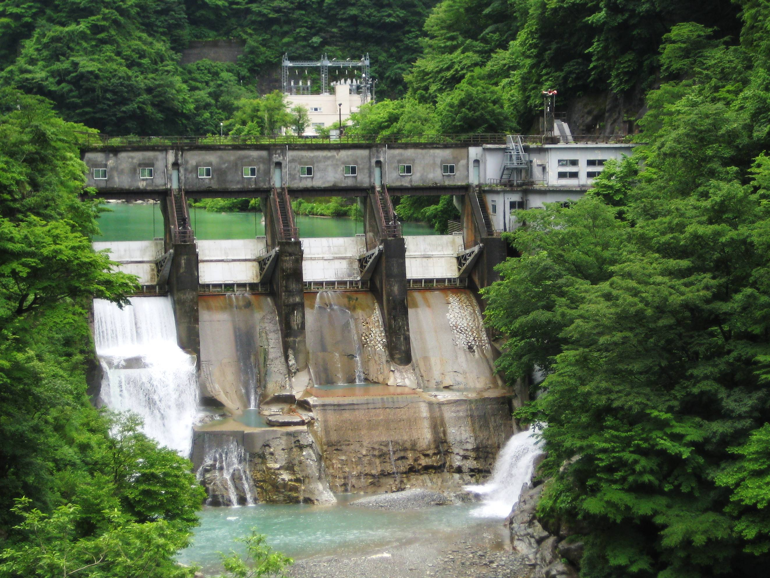 Oguchi I Dam.